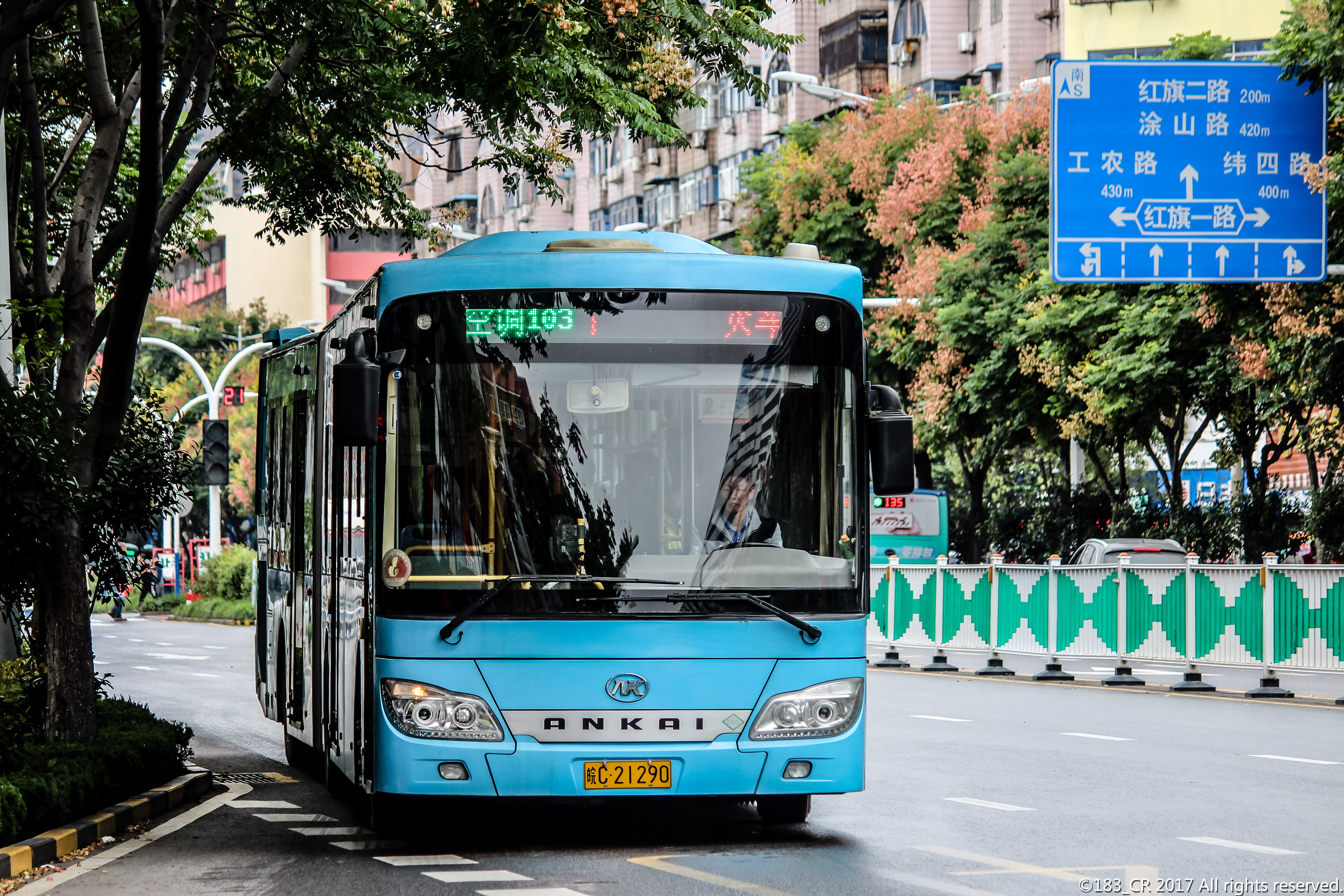 Bengbu Bus No.103 N